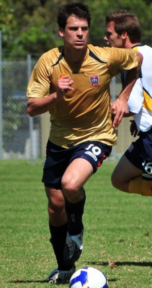 Fabio Vignaroli playing a trial game for Newcastle Jets against Central Coast Mariners.